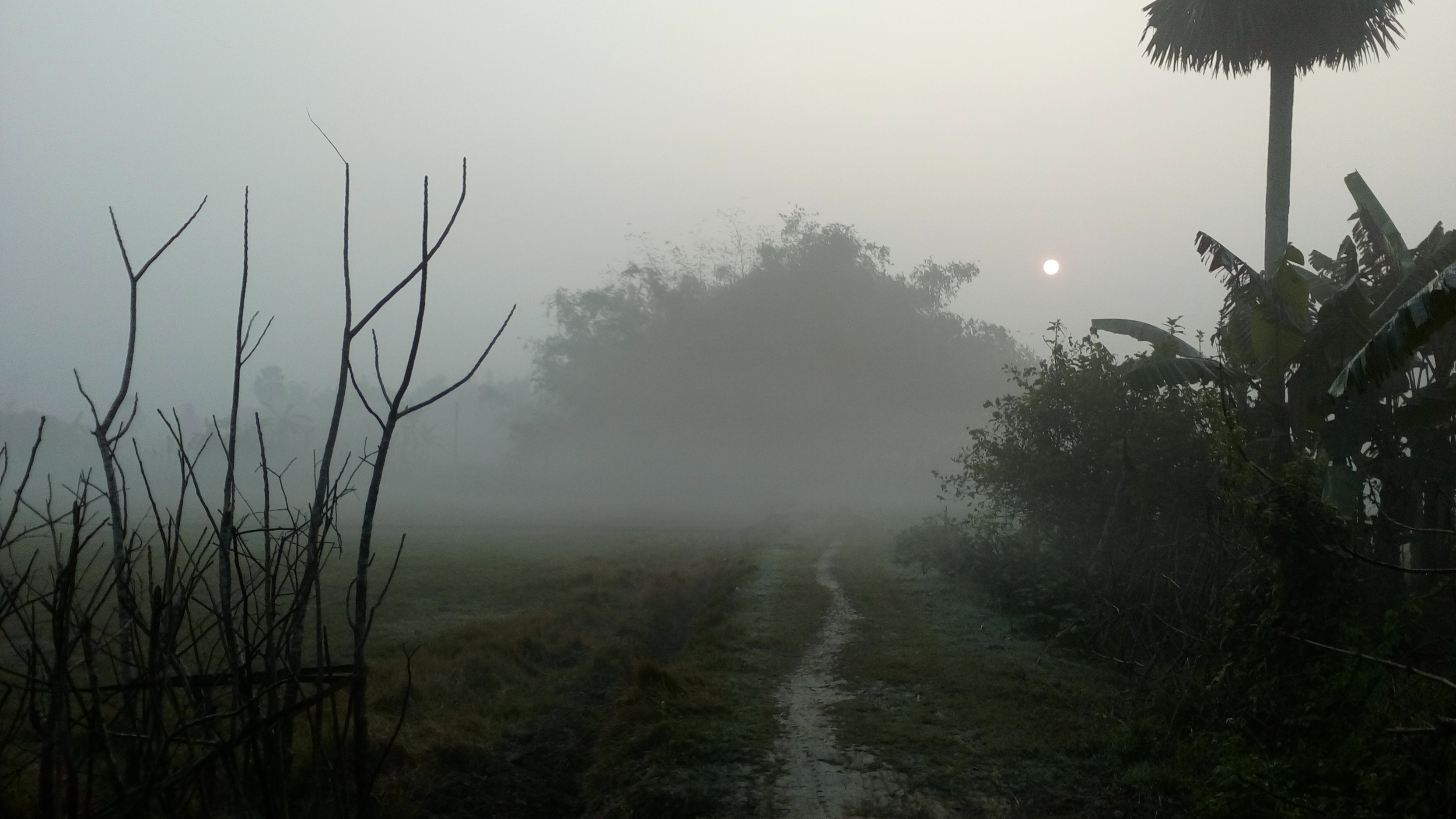 Beauty of village Nokari